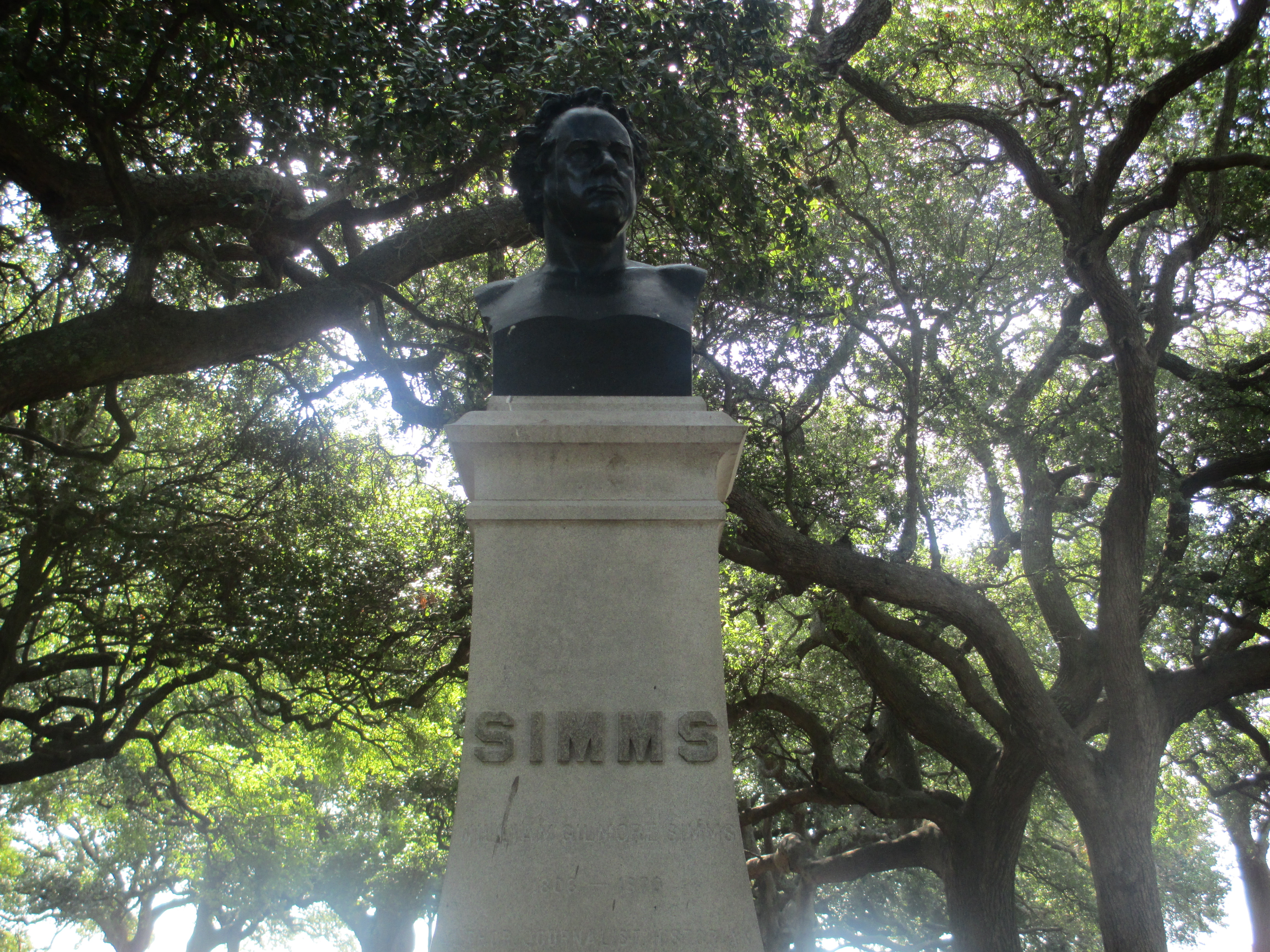 I took photo of Simms' bust in Battery Park in Charleston, with Canon camera.